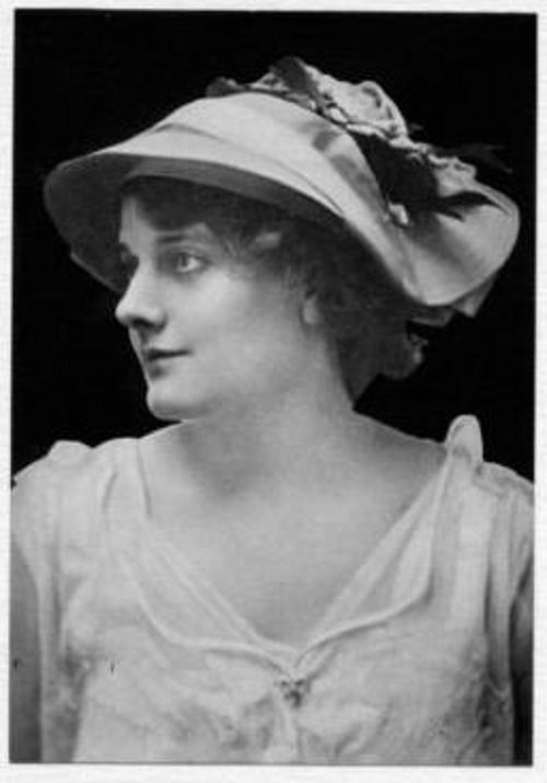 Ormi Hawley (February 21, 1889, Holyoke, Massachusetts – June 3, 1942, Rome, New York) was an American actress.